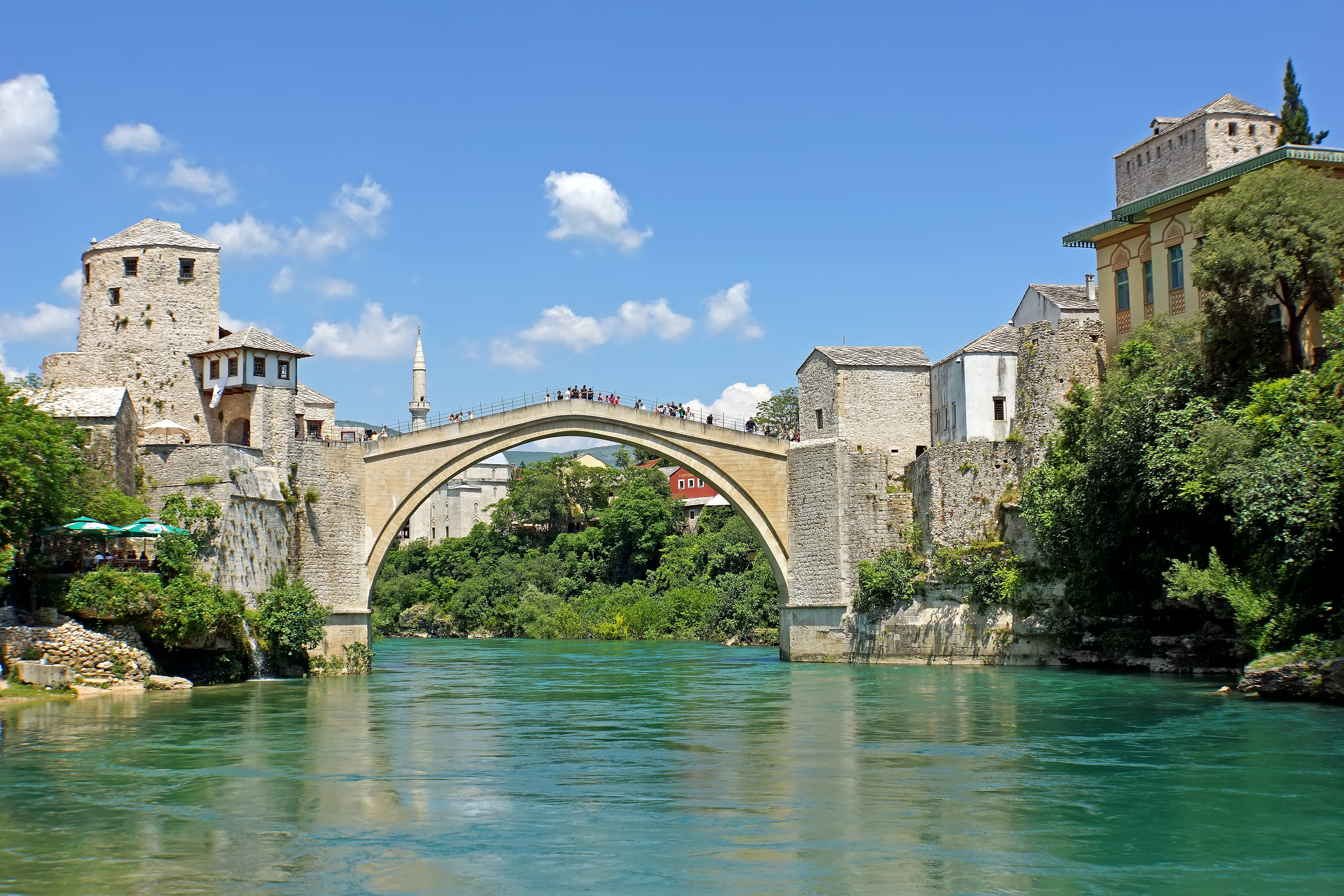 PLEASE, NO invitations or self promotions, THEY WILL BE DELETED. My photos are FREE to use, just give me credit and it would be nice if you let me know, thanks.. Stari Most (Old Bridge) is a reconstruction of a 16th-century Ottoman bridge that crosses the Neretva river. The Old Bridge stood for 427 years, until it was destroyed on 9 November 1993 by Bosnian Croat forces during the Croat–Bosniak War. The rebuilt bridge opened on 23 July 2004. One of the country's most recognizable landmarks, it is also considered one of the most exemplary pieces of Islamic architecture in the Balkans. The Old Bridge is hump-backed, 4 metres (13 ft 1 in) wide and 30 metres (98 ft 5 in) long, and dominates the river from a height of 24 m (78 ft 9 in). Two fortified towers protect it: the Helebija tower on the northeast and the Tara tower on the southwest, called "the bridge keepers". It is traditional for young men to leap from the bridge into the Neretva. This is a very risky feat and only the most skilled and best trained divers will attempt it. It dates back to the time the bridge was built, but the first recorded instance of someone diving off the bridge is from 1664.